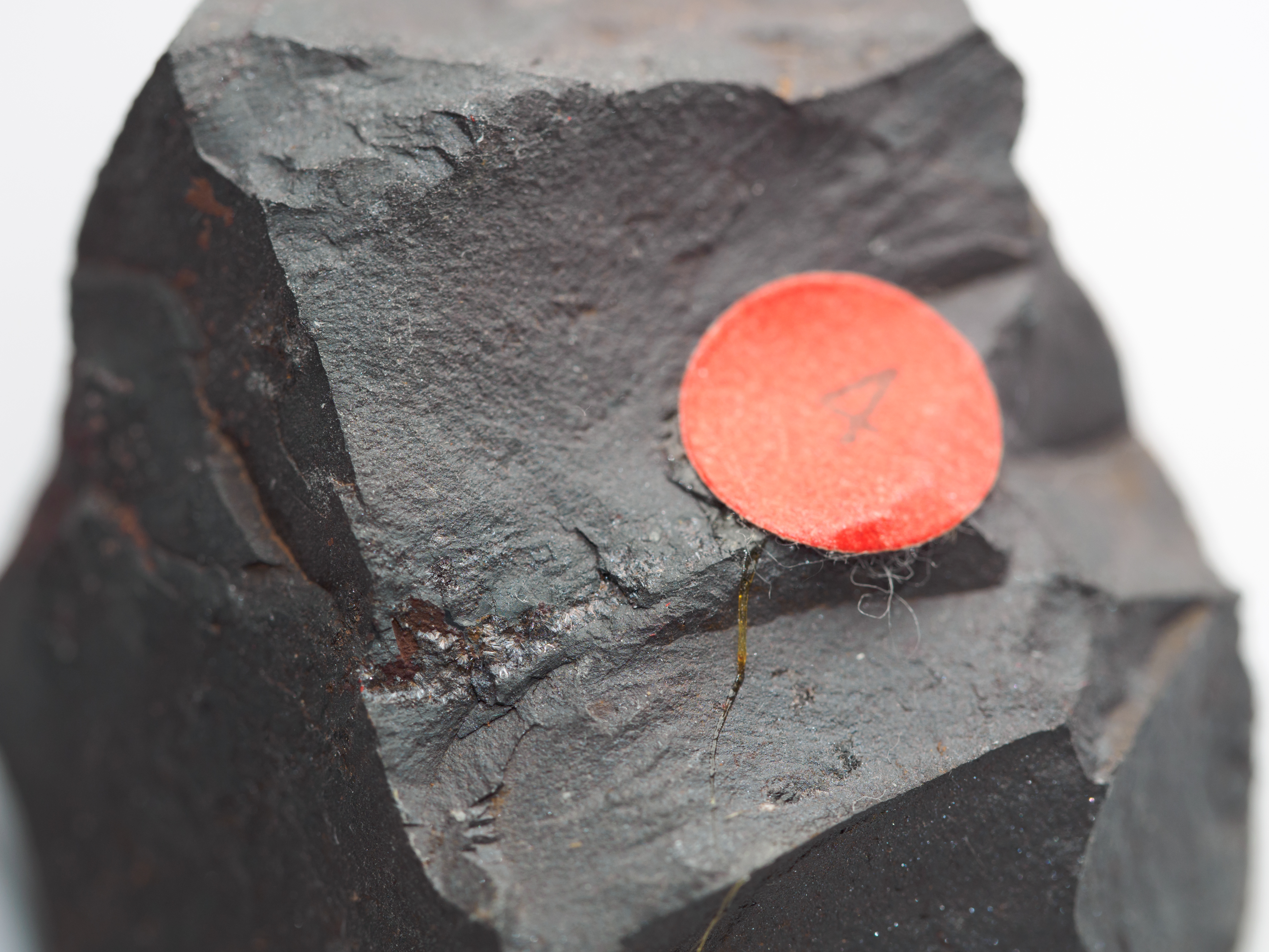 Iron ore